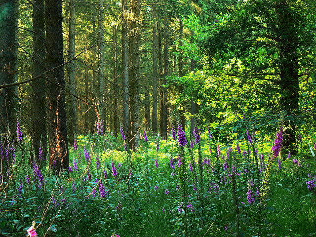 Foxgloves and pines, Savernake Forest I saw quite a few of these plants in my wanderings through the forest this afternoon. These are probably native Digitalis purpurea which can grow to a height of 1.8 metres.